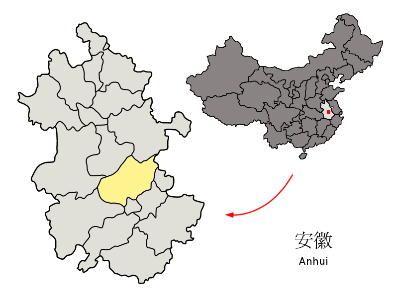 Location of Chaohu Prefecture (yellow) within Anhui Province of China Map drawn in december 2007 using various sources, mainly : Anhui Province administrative regions GIS data: 1:1M, County level, 1990 Anhui Counties map from